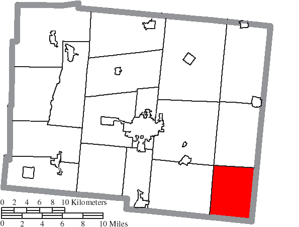 Map of the municipal and township boundaries of Logan County, Ohio, United States, as of the 2000 census, with the location of Zane Township highlighted. Township borders are shown only in unincorporated areas in order to differentiate incorporated and unincorporated areas more clearly.